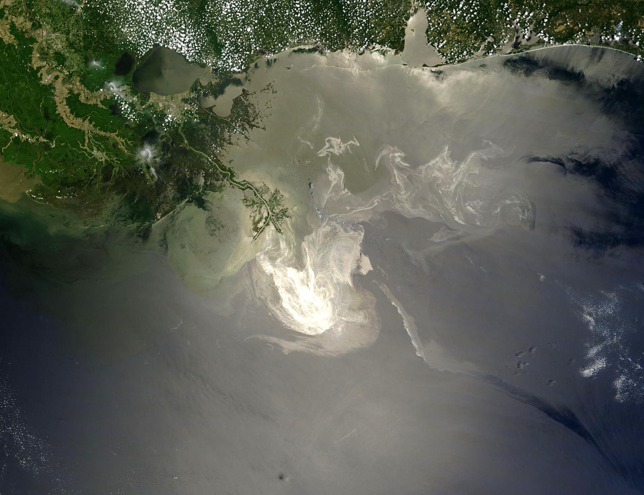 Description from NASA (source): "NASA's Terra Satellites Sees Spill on May 24 Sunlight illuminated the lingering oil slick off the Mississippi Delta on May 24, 2010. The Moderate-Resolution Imaging Spectroradiometer (MODIS) on NASA’s Terra satellite captured this image the same day. Oil smoothes the ocean surface, making the Sun’s reflection brighter near the centerline of the path of the satellite, and reducing the scattering of sunlight in other places. As a result, the oil slick is brighter than the surrounding water in some places (image center) and darker than the surrounding water in others (image lower right). The tip of the Mississippi Delta is surrounded by muddy water that appears light tan. Bright white ribbons of oil streak across this sediment-laden water. Tendrils of oil extend to the north and east of the main body of the slick. A small, dark plume along the edge of the slick, not far from the original location of the Deepwater Horizon rig, indicates a possible controlled burn of oil on the ocean surface. To the west of the bird’s-foot part of the delta, dark patches in the water may also be oil, but detecting a manmade oil slick in coastal areas can be even more complicated than detecting it in the open ocean. When oil slicks are visible in satellite images, it is because they have changed how the water reflects light, either by making the Sun’s reflection brighter or by dampening the scattering of sunlight, which makes the oily area darker. In coastal areas, however, similar changes in reflectivity can occur from differences in salinity (fresh versus salt water) and from naturally produced oils from plants. Michon Scott, NASA's Earth Observatory, NASA Goddard Space Flight Center"